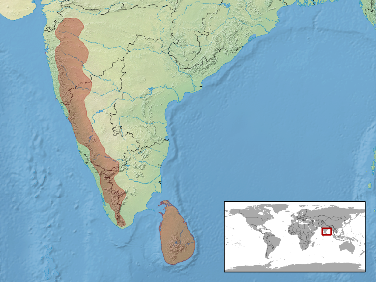 geographic distribution of Boiga beddomei (Native: India; Sri Lanka)